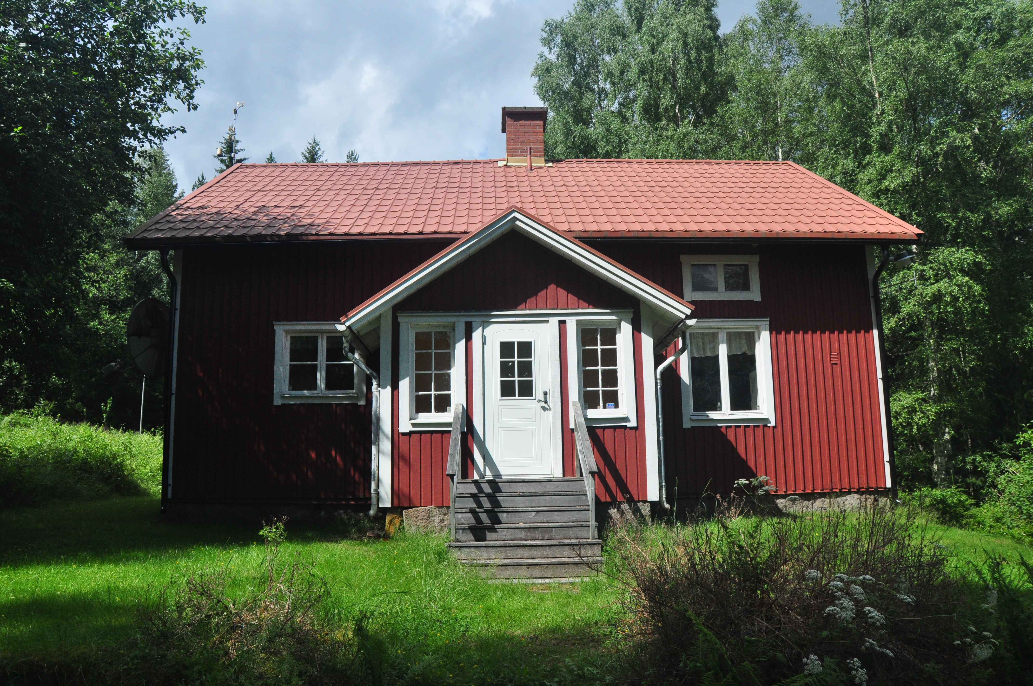 Hagfors observatory main building